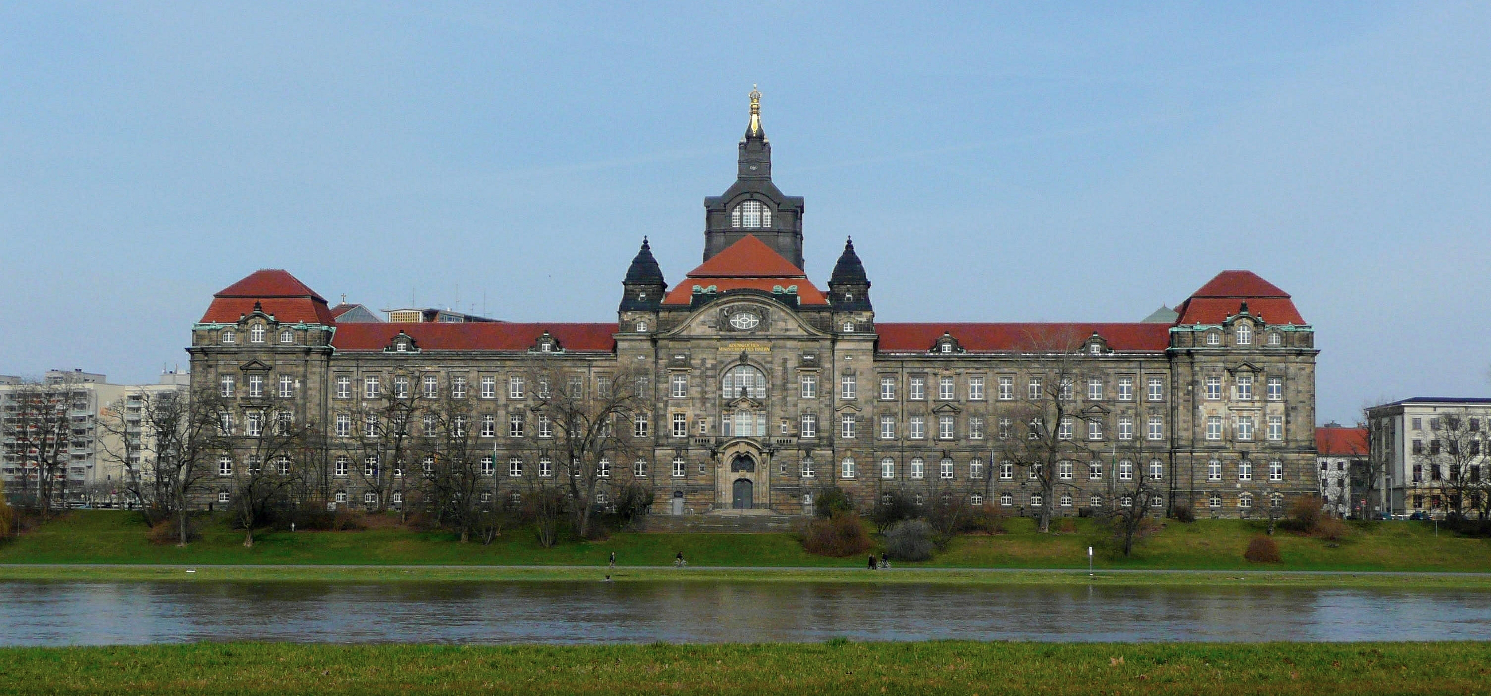 Dresden: Sächsische Staatskanzlei (Saxon State Chancellery or Saxon State Chamber).